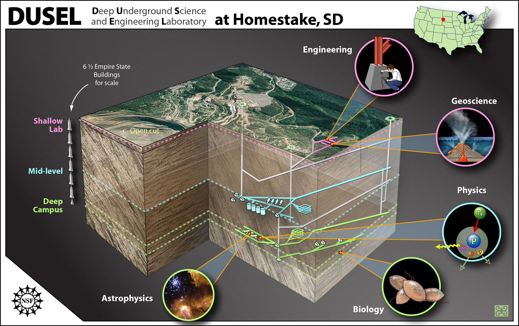 Diagram of the proposed Deep Underground Science and Engineering Laboratory at Homestake Mine, Lead, SD. Artist's rendition by Zina Deretsky.